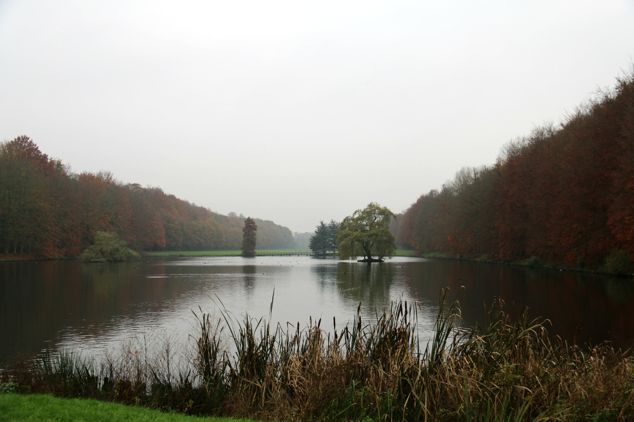 500px provided description: Tervuren Parc [#trees ,#birds ,#tree ,#de ,#herbst ,#baum ,#b?ume ,#Canon ,#Park ,#See ,#Parc ,#Tervuren ,#Eos ,#V?gel ,#70d]